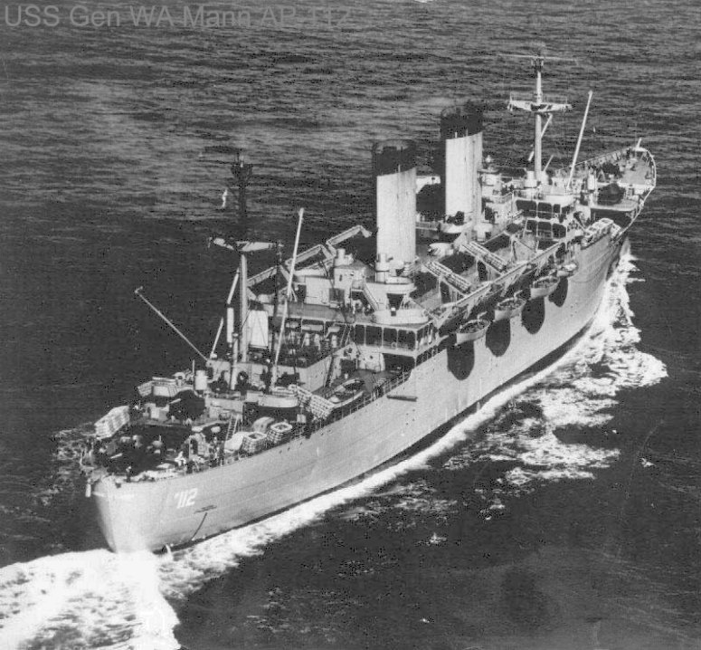 USS General W. A. Mann (AP-112) underway, date and place unknown.